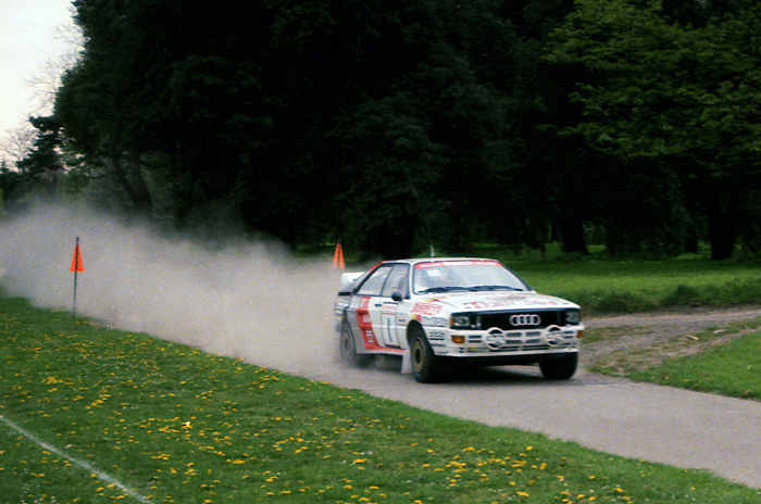 Michèle Mouton in an Audi Quattro A2 finishes stage one of the 1985 Welsh International Rally.